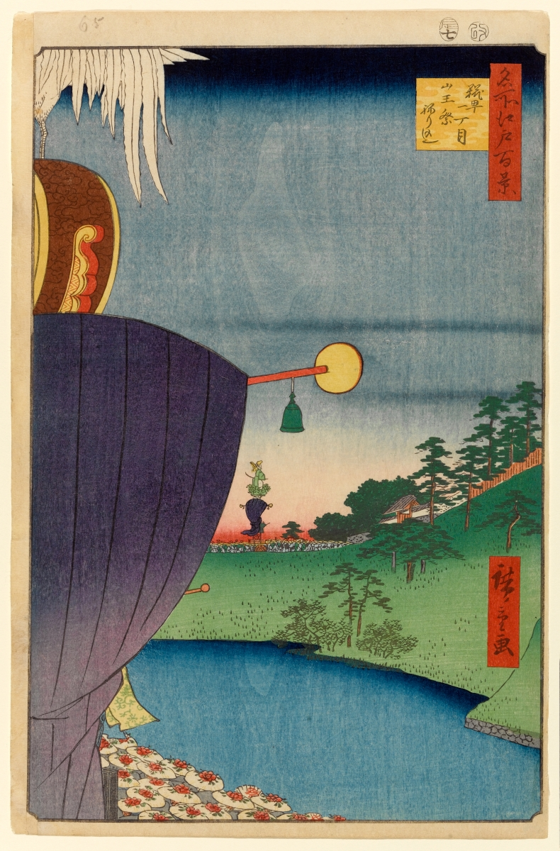 Part of the series One Hundred Famous Views of Edo, no. 051, part 2: Summer.